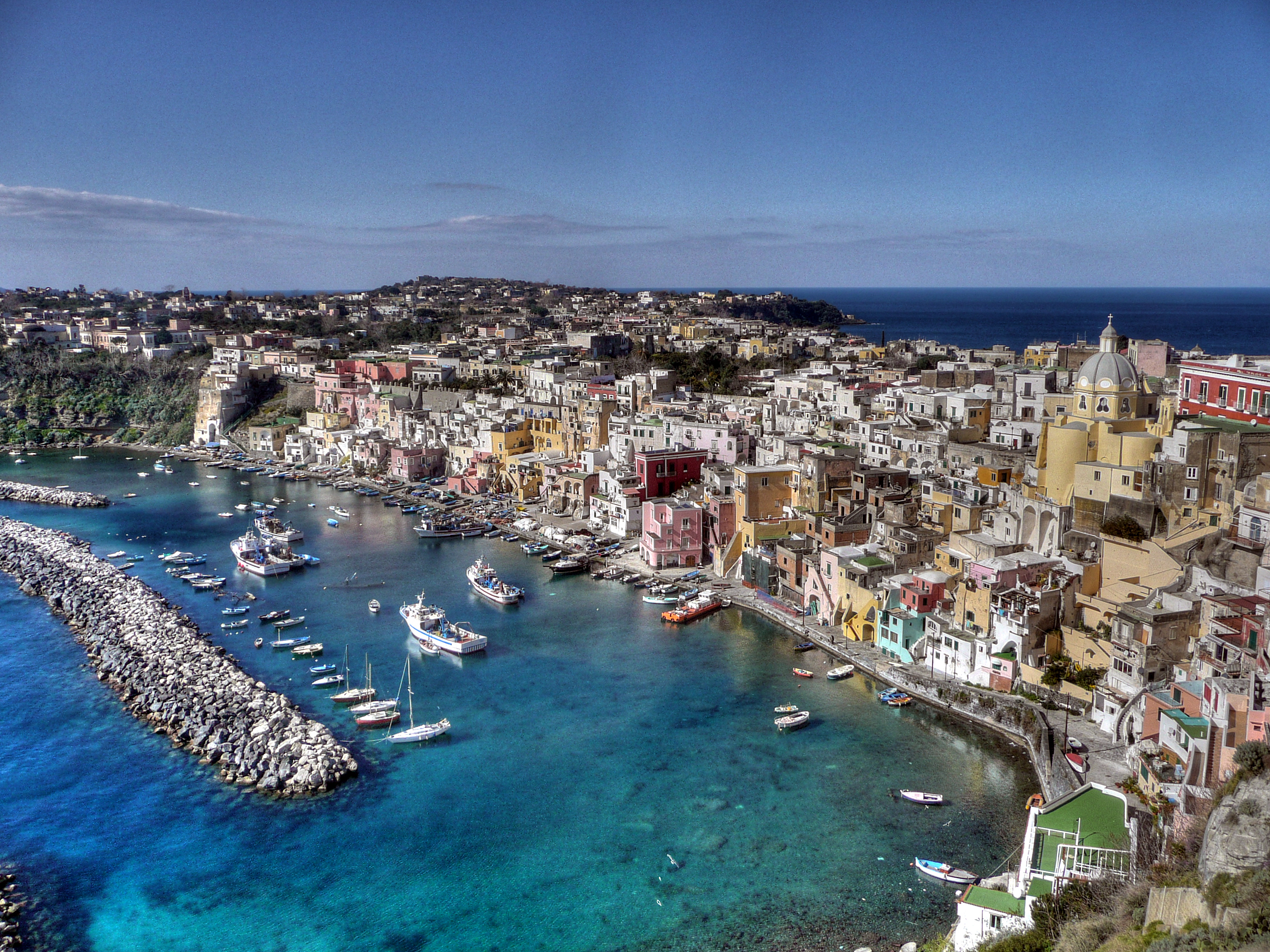 Procida, Flegrean Islands, Naples, Italy